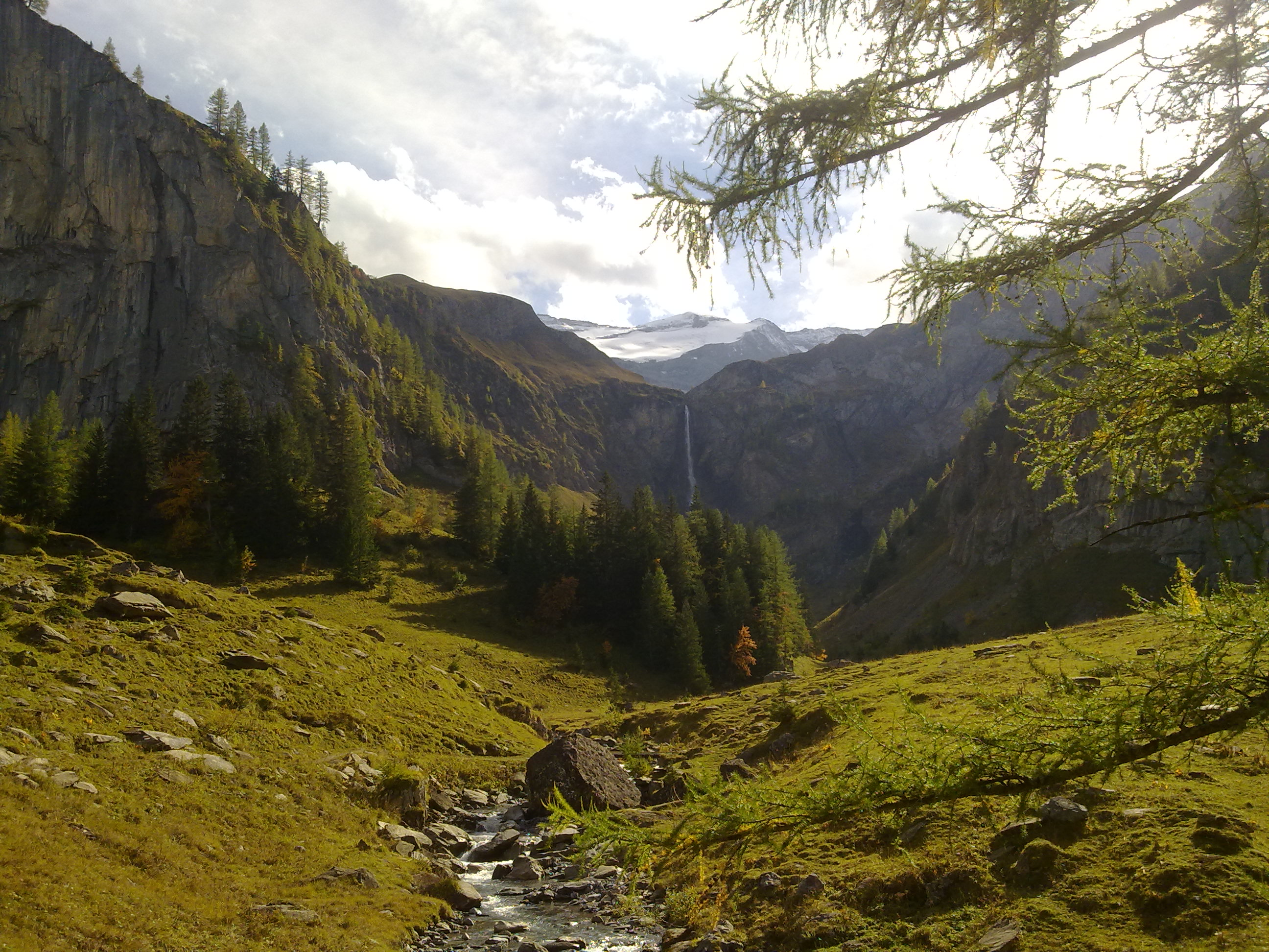 Undere Feisseberg, south of Lauenen